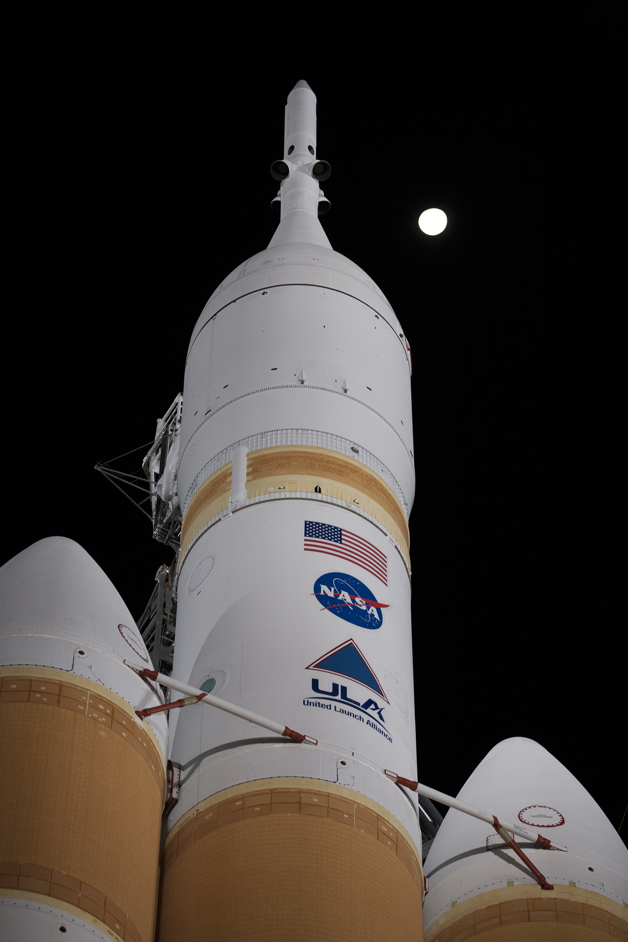 The launch gantry is rolled back to reveal NASA's Orion spacecraft mounted atop a United Launch Alliance Delta IV Heavy rocket at Cape Canaveral Air Force Station's Space Launch Complex 37. Orion is NASA’s new spacecraft built to carry humans, designed to allow us to journey to destinations never before visited by humans, including an asteroid and Mars.